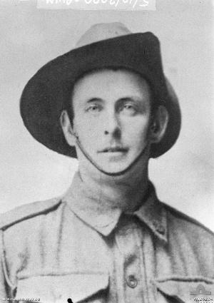 Portrait of Lewis McGee VC, an Australian First World War recipient of the Victoria Cross.